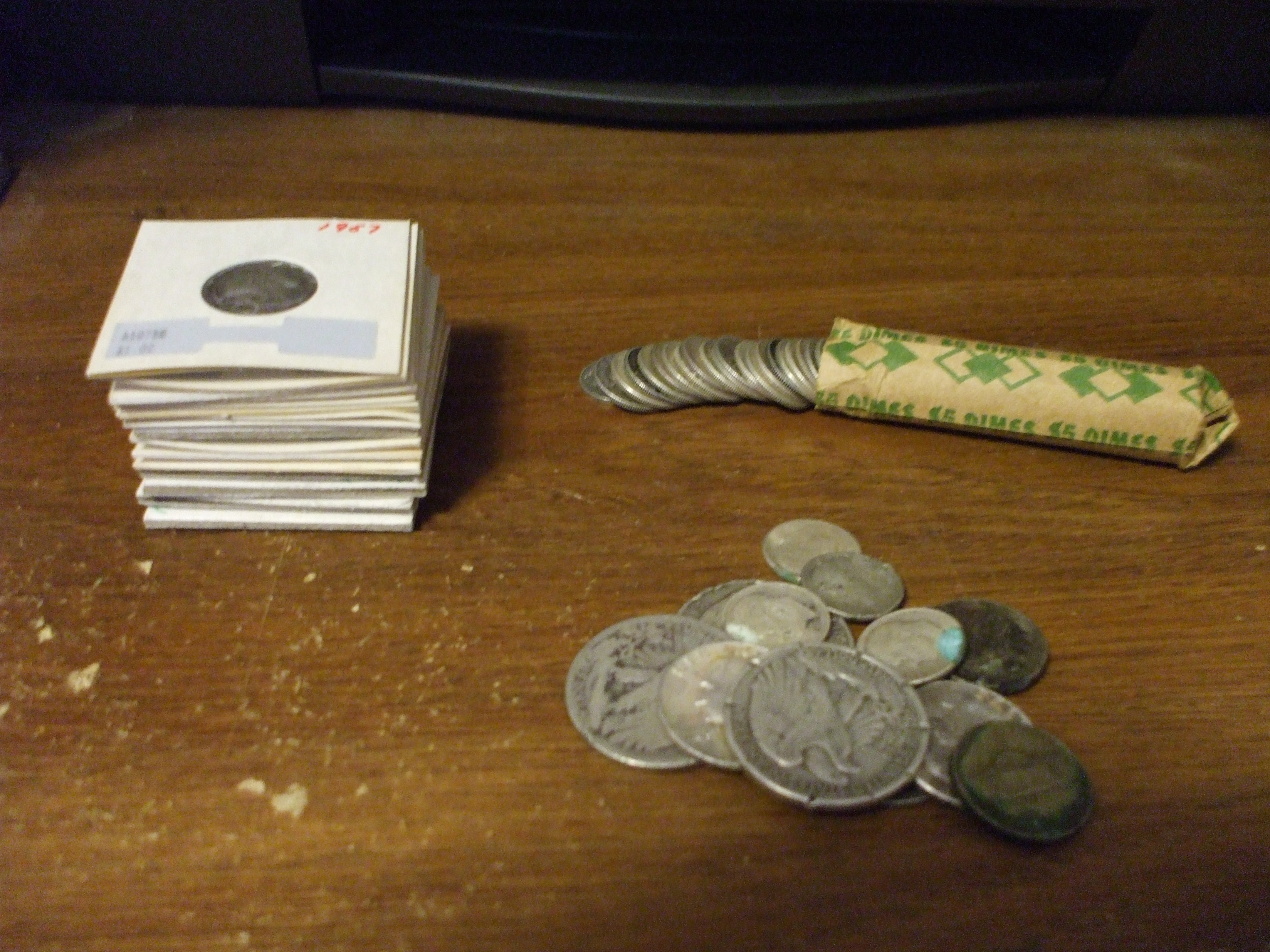 Junk Silver. From top left: Silver dimes in 2X2 paper holders, a roll of dimes, and a mixed loose lot of half dollars, quarters, dimes, and war nickels.